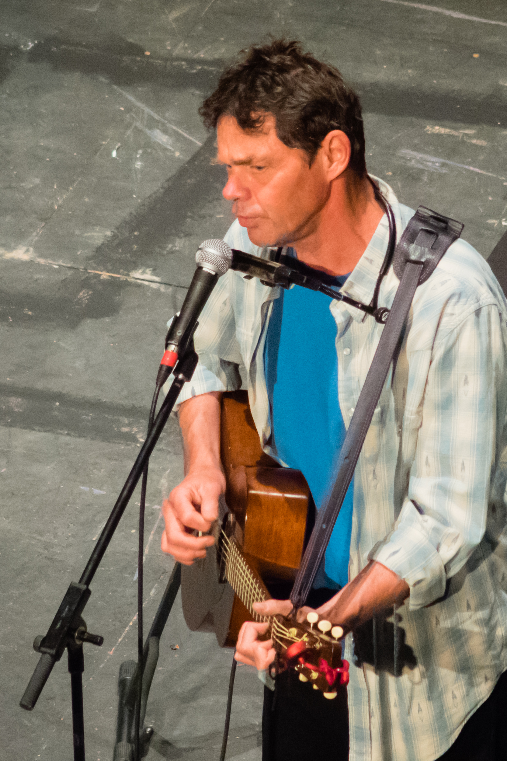 Rich Hall performing at York Theatre Royal on the 19th of April, 2014.